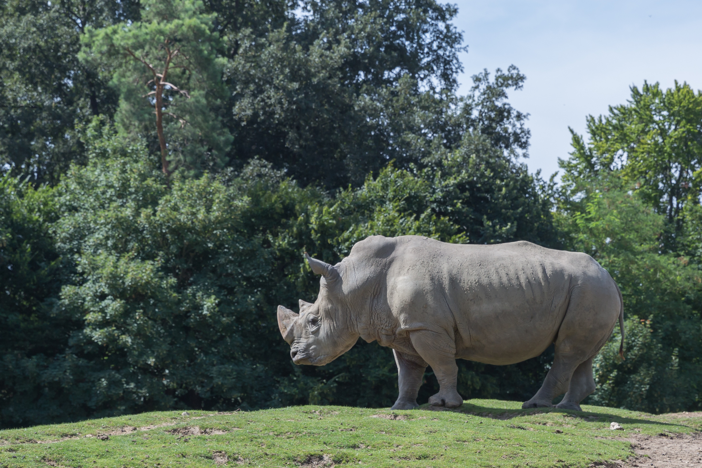 Ceratotherium simum simum (southern white rhinoceros) in the ZooParc de Beauval in Saint-Aignan-sur-Cher, France.